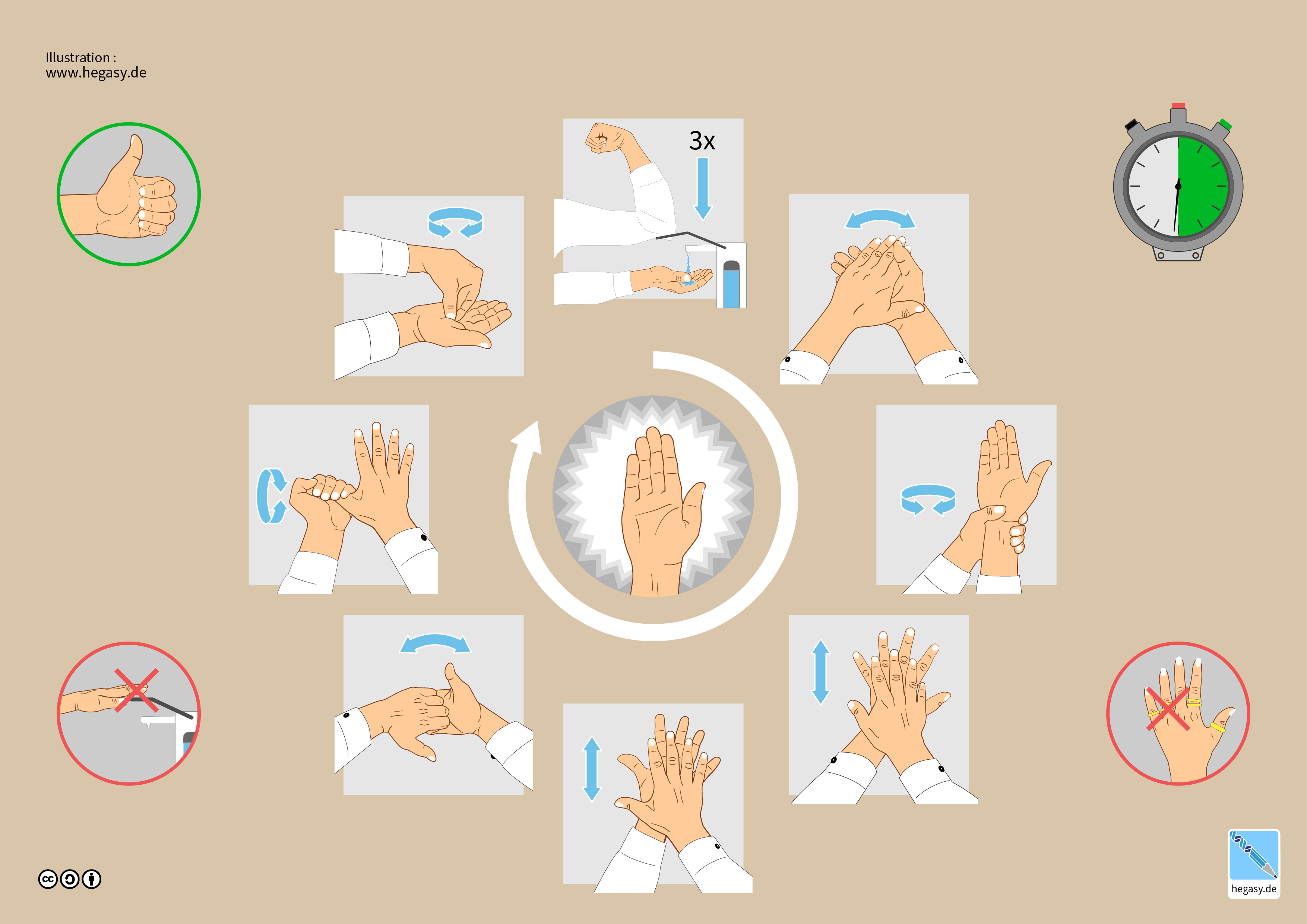 Hand Disinfection according to DIN EN 1500